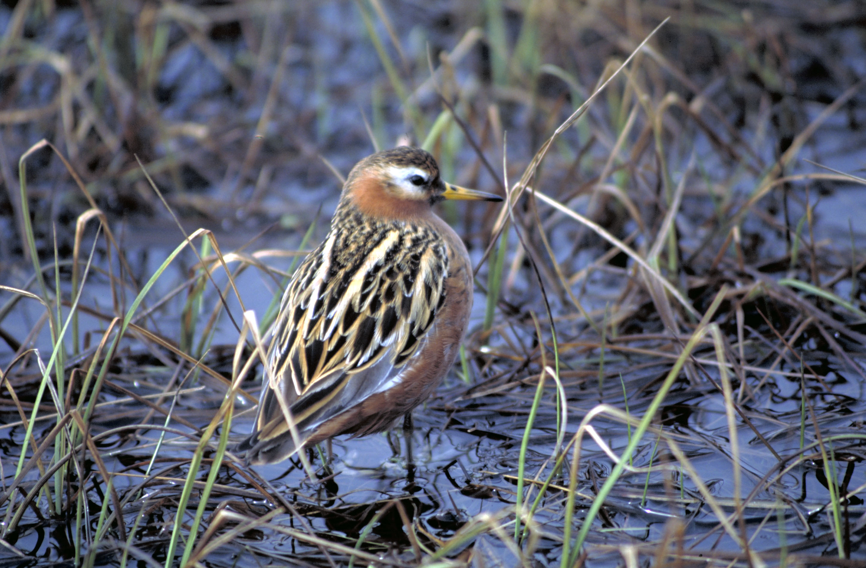 Red Phalarope (Phalaropus fulicarius)